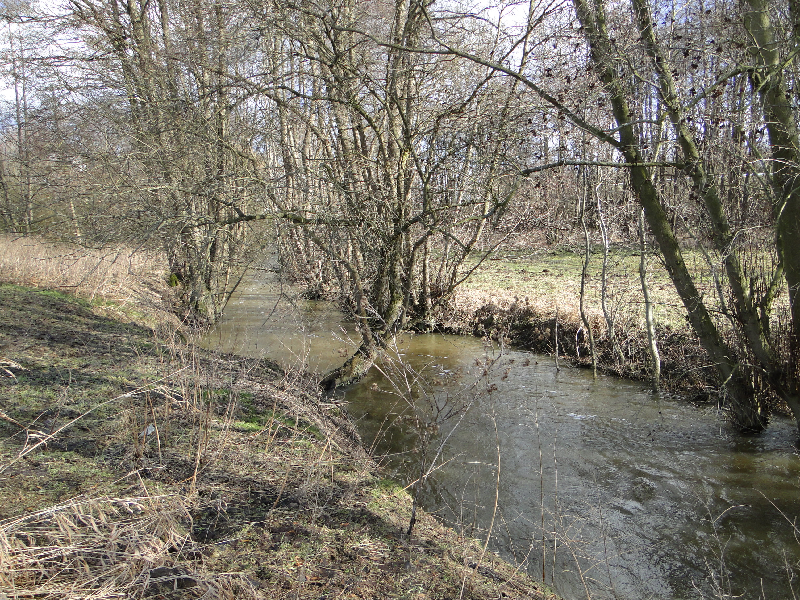 Maurine river in Groß Siemz, disctrict Nordwestmecklenburg, Mecklenburg-Vorpommern, Germany